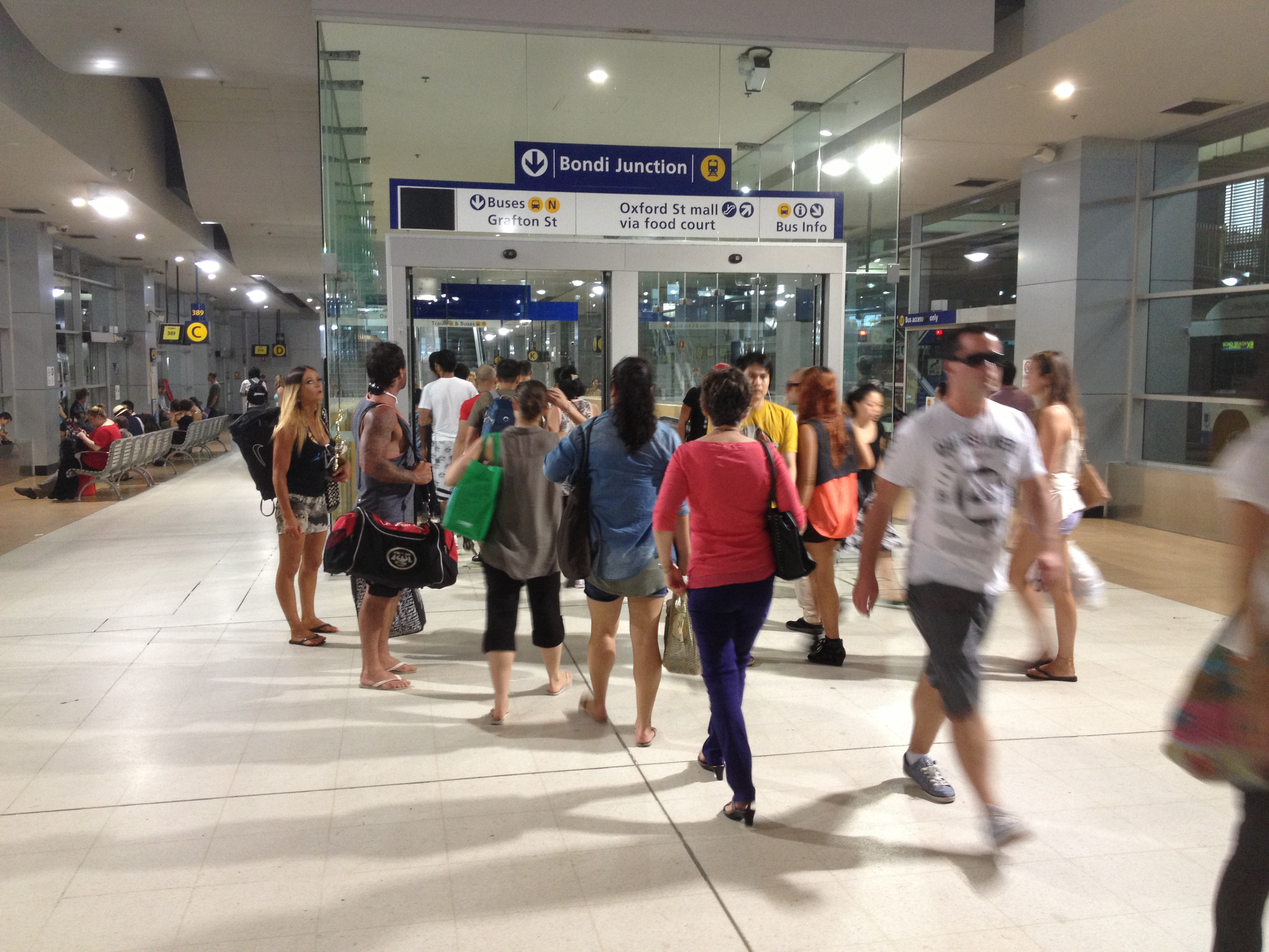 Bondi Junction Transport Interchange, ground level.